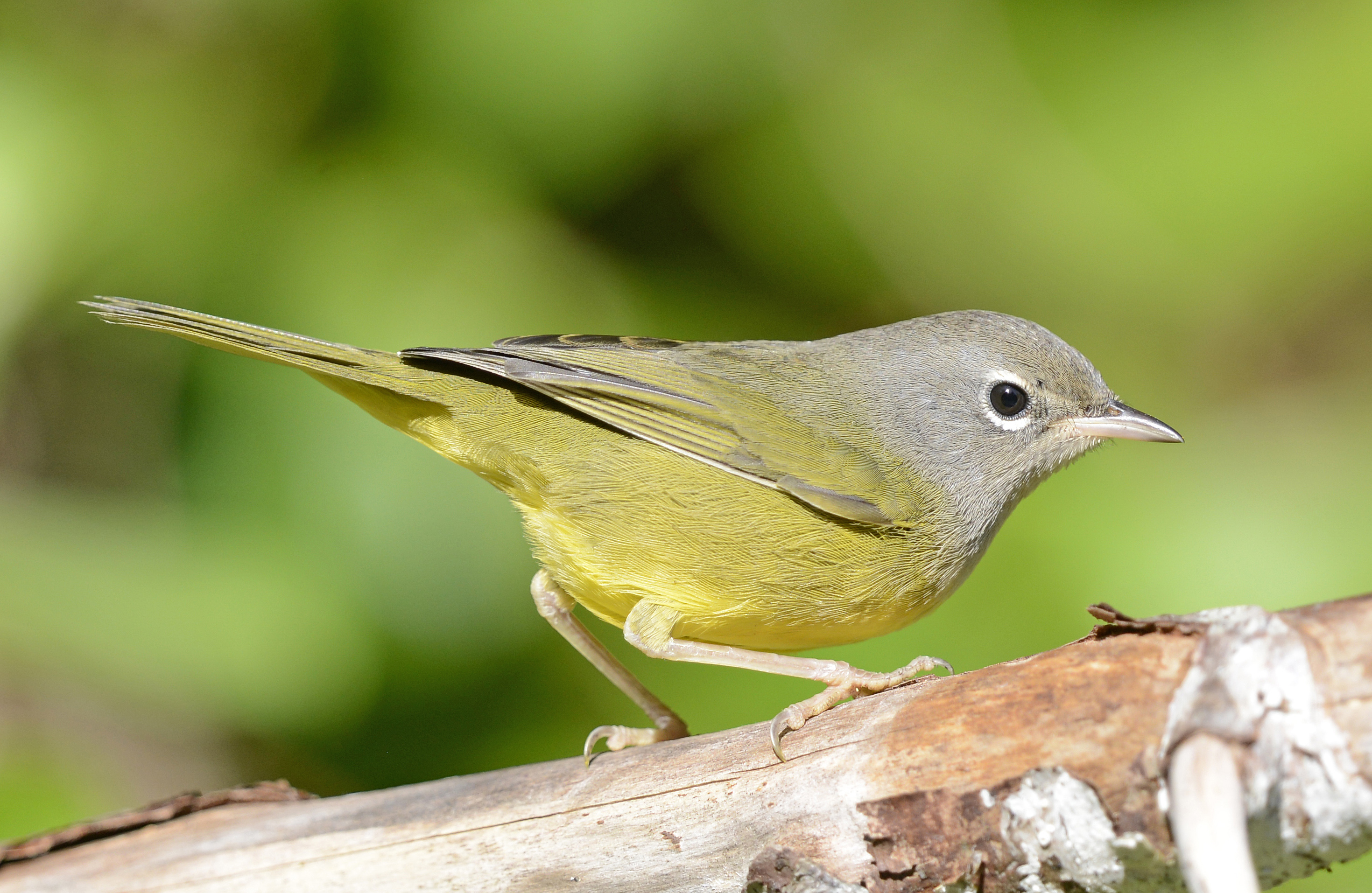 MacGillivray's Warbler (Geothlypis tolmiei), female, Western Washington State